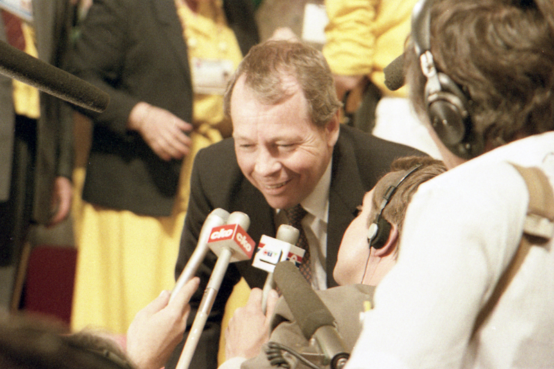 David Crombie, former Mayor of Toronto, speaks to reporters on the floor of the 1983 Progressive Conservative leadership convention.